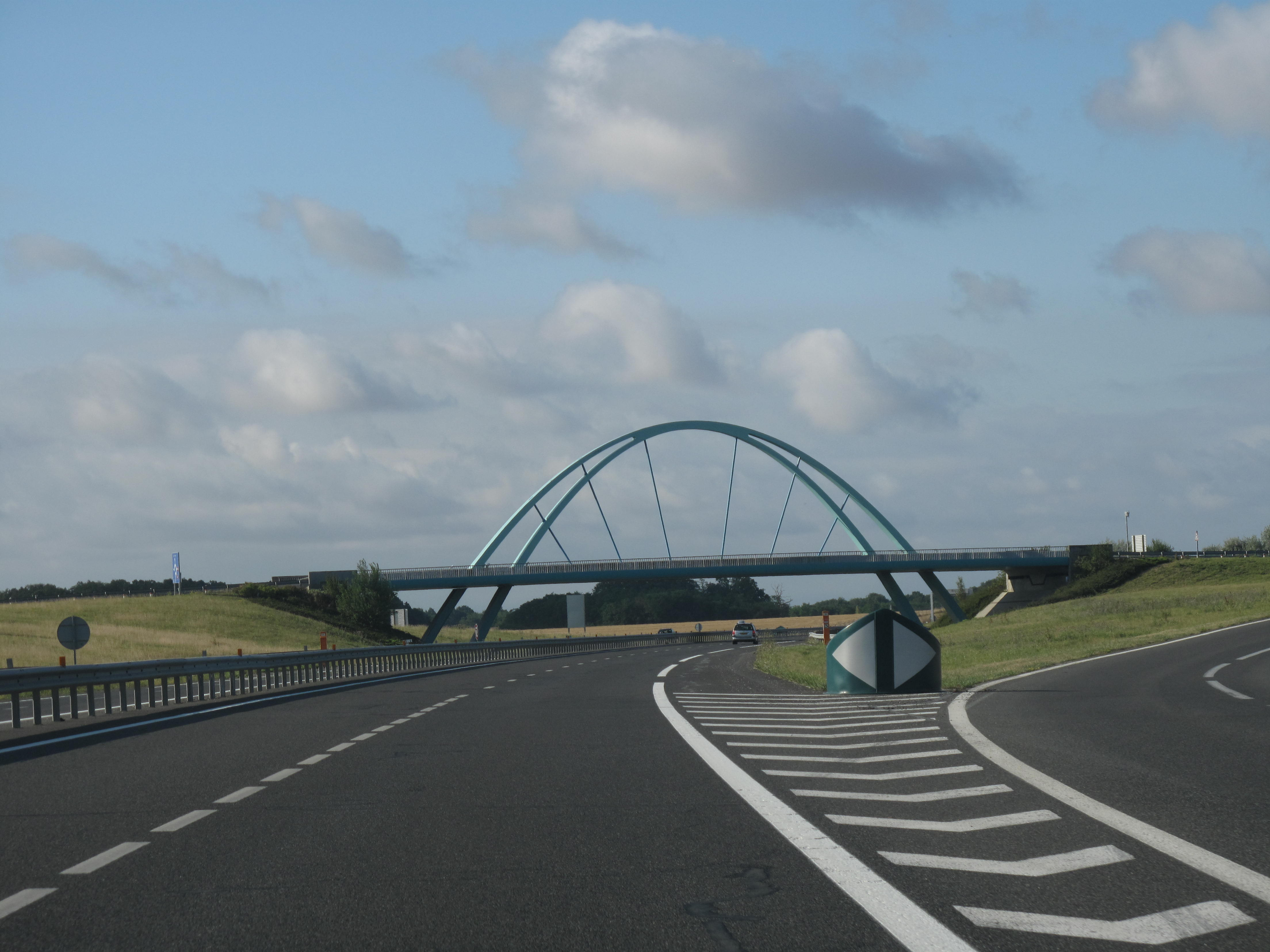 The rest area of Villeroy on french highway Autoroute A19, with its crossing bridge, France